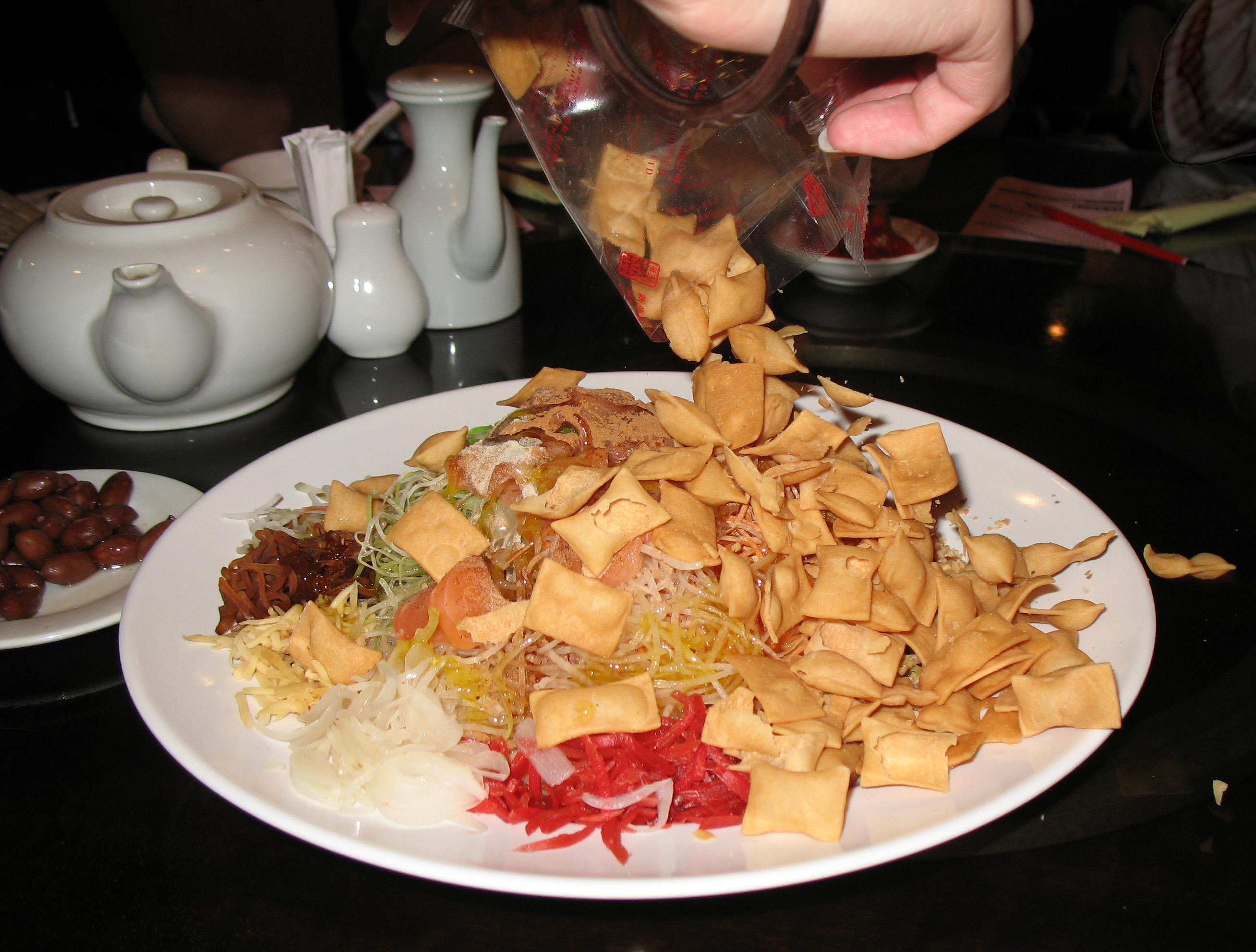 Yusheng, Chinese-style raw fish salad Picture taken by author with Canon Powershot A620 on 25 Jan 2006, 12:19pm (GMT+8) Details: Color Representation: sRGB, 1/60s shutter speed, aperture F/2.8, focal length 7mm, pattern metering mode, exposure compensation: 0 steps some parts of background were darkened with Adobe Photoshop LE